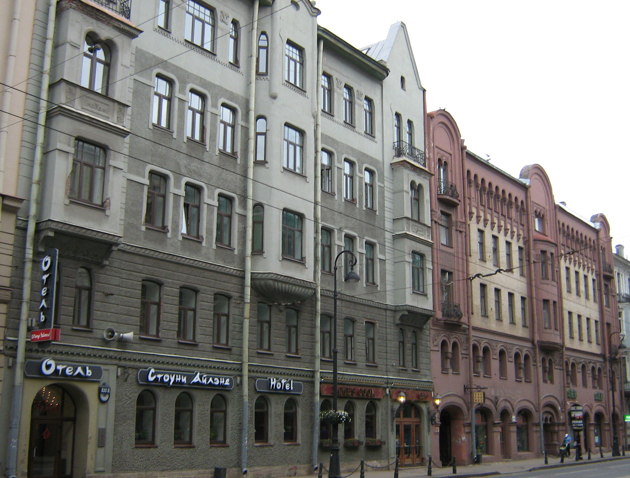 45, Kamennoostrovsky avenue, St.Petersburg, Russia